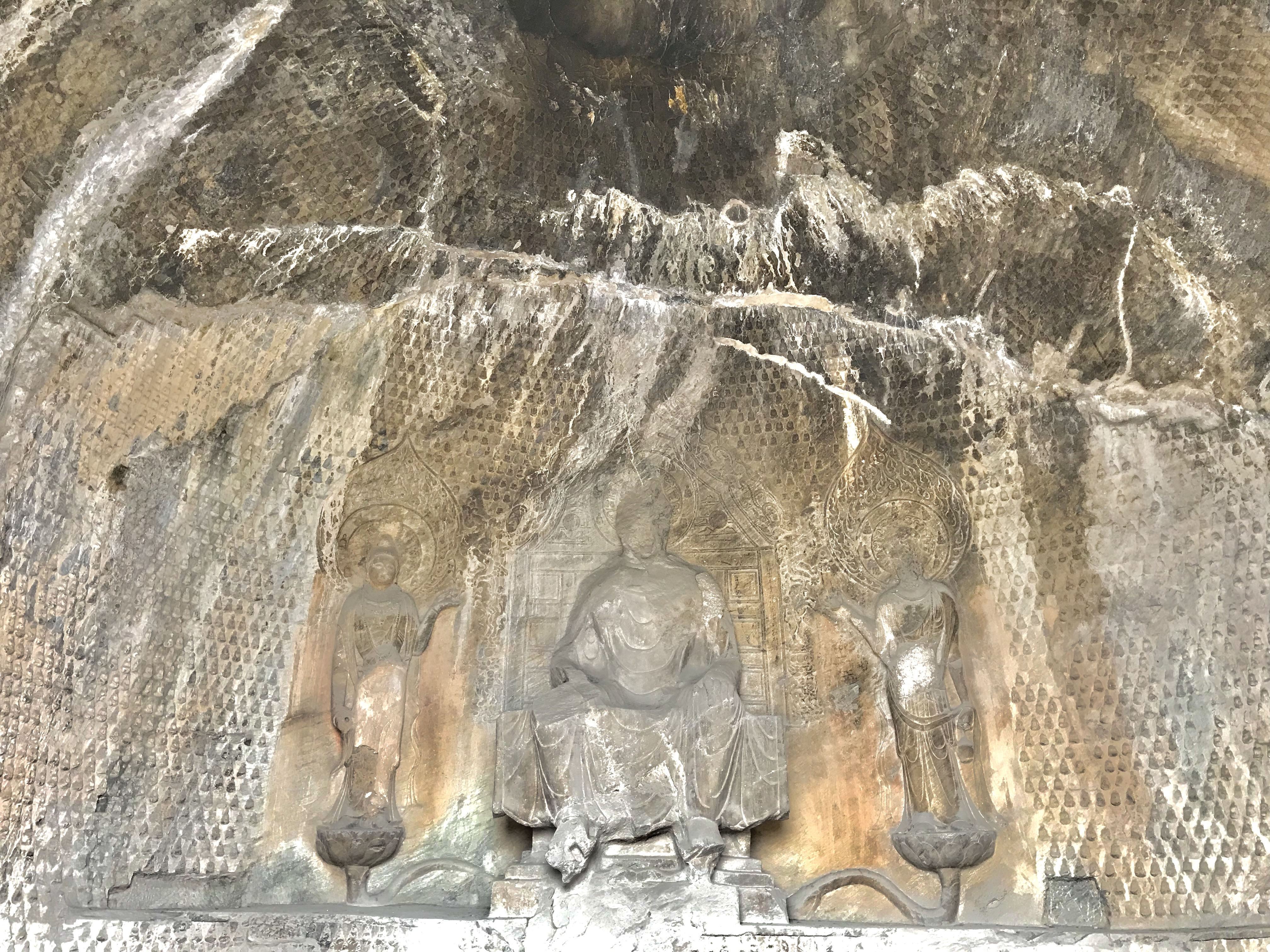 Longmen Grottoes, Luoyang, Henan